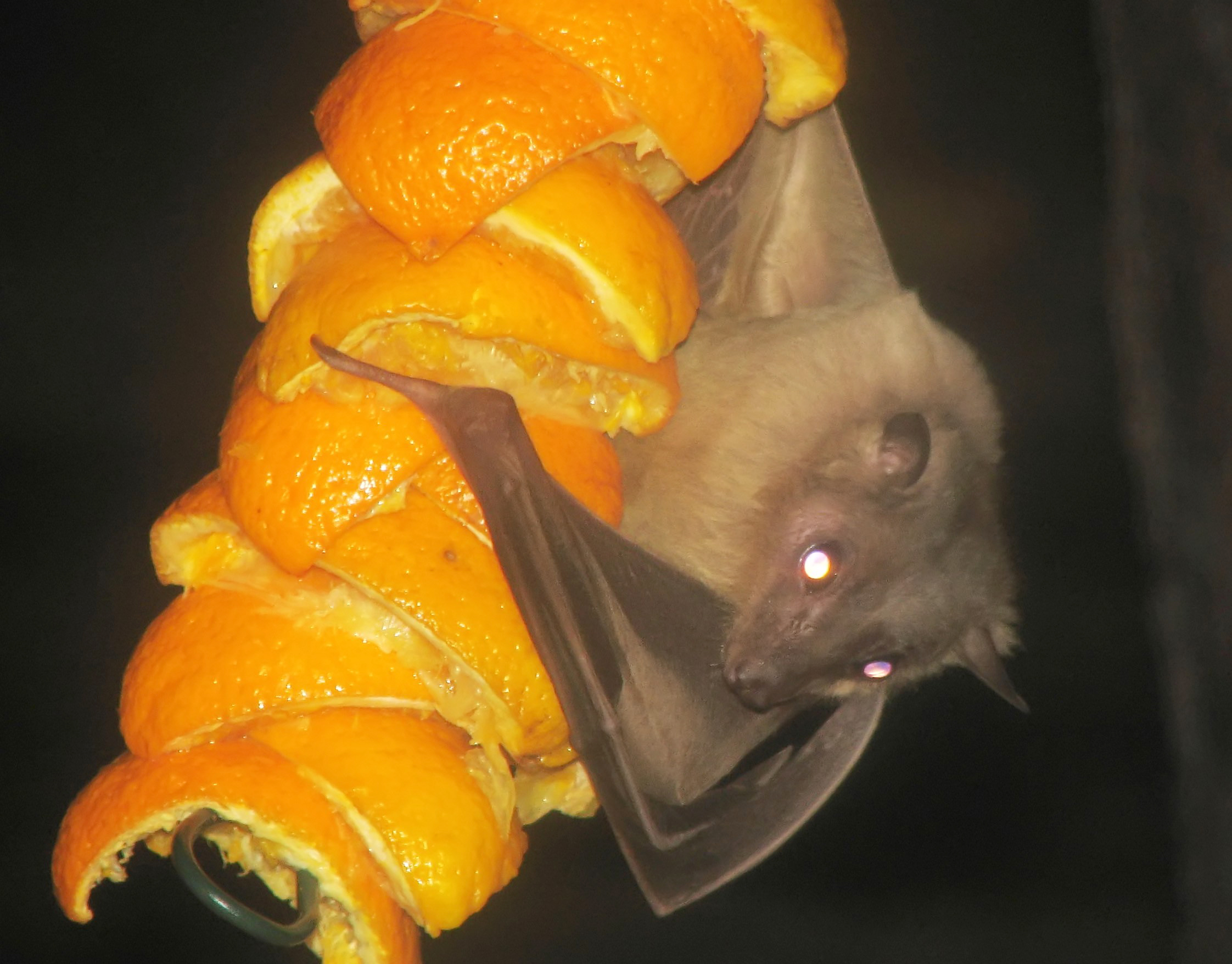 An Egyptian Fruit Bat Rousettus aegyptiacus clings to pieces of orange at the Cotswold Wildlife Park, Burford, Oxfordshire, England. The camera flash has reflected from its eyes. Photographed by Adrian Pingstone in June 2006 and placed in the public domain.